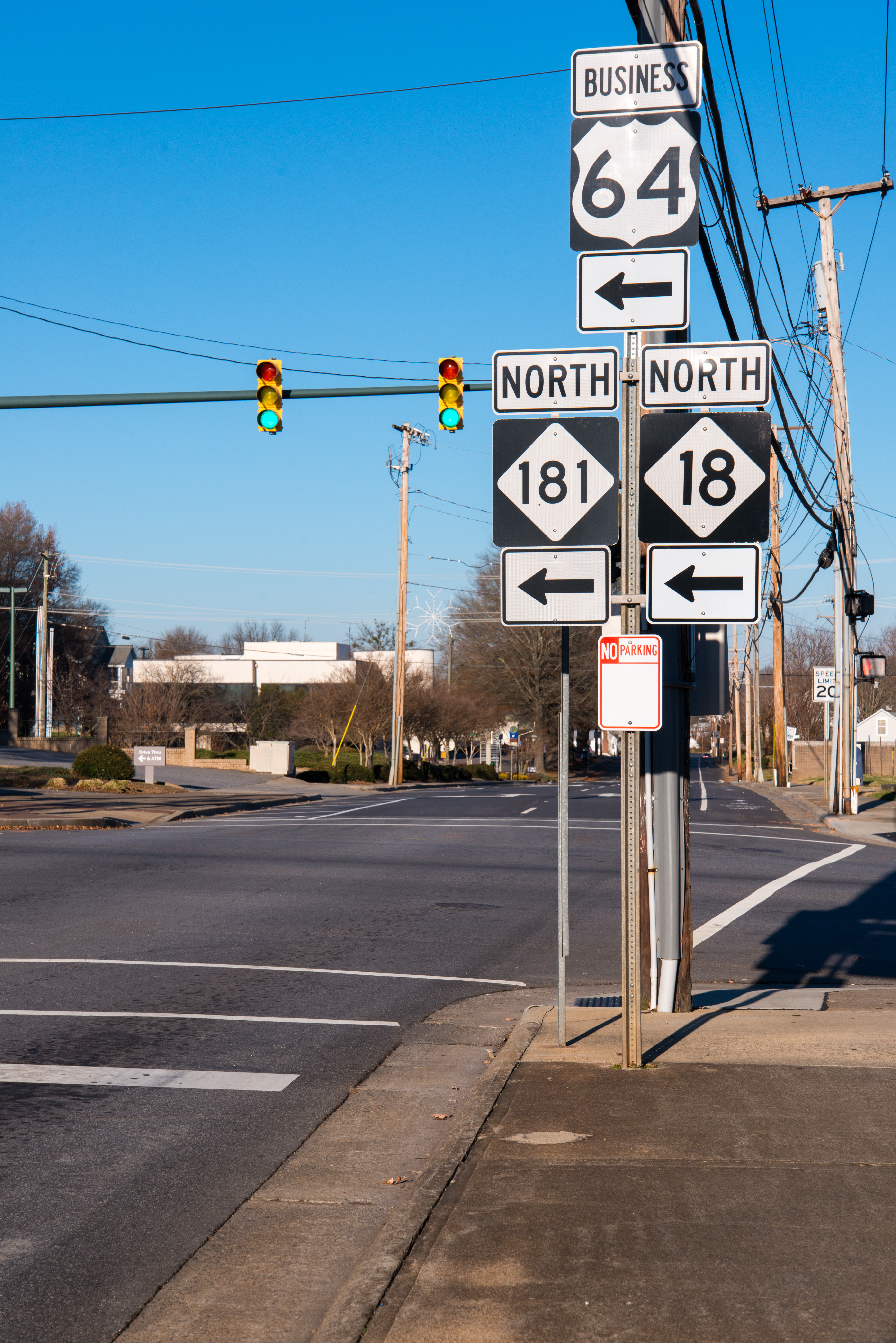 At the intersection of Meeting and Green Streets, US 64 Business turns left in concurrency with NC 18 and NC 181. Hidden at interchange is US 70 Business. This intersection is also where NC 181 southbound ends and its northbound begins.